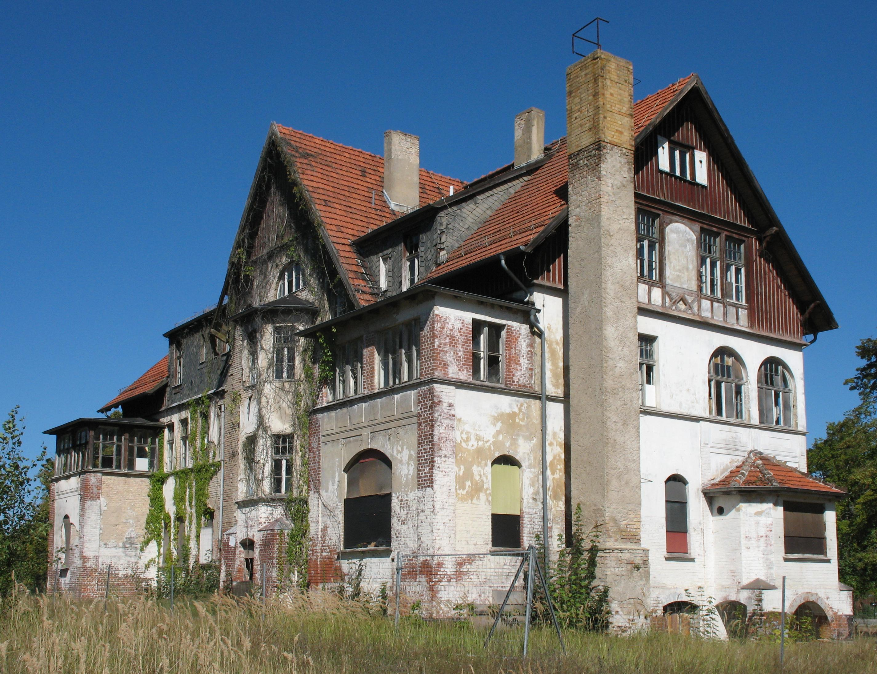 Former sanatorium in Lychen in Brandenburg, Germany